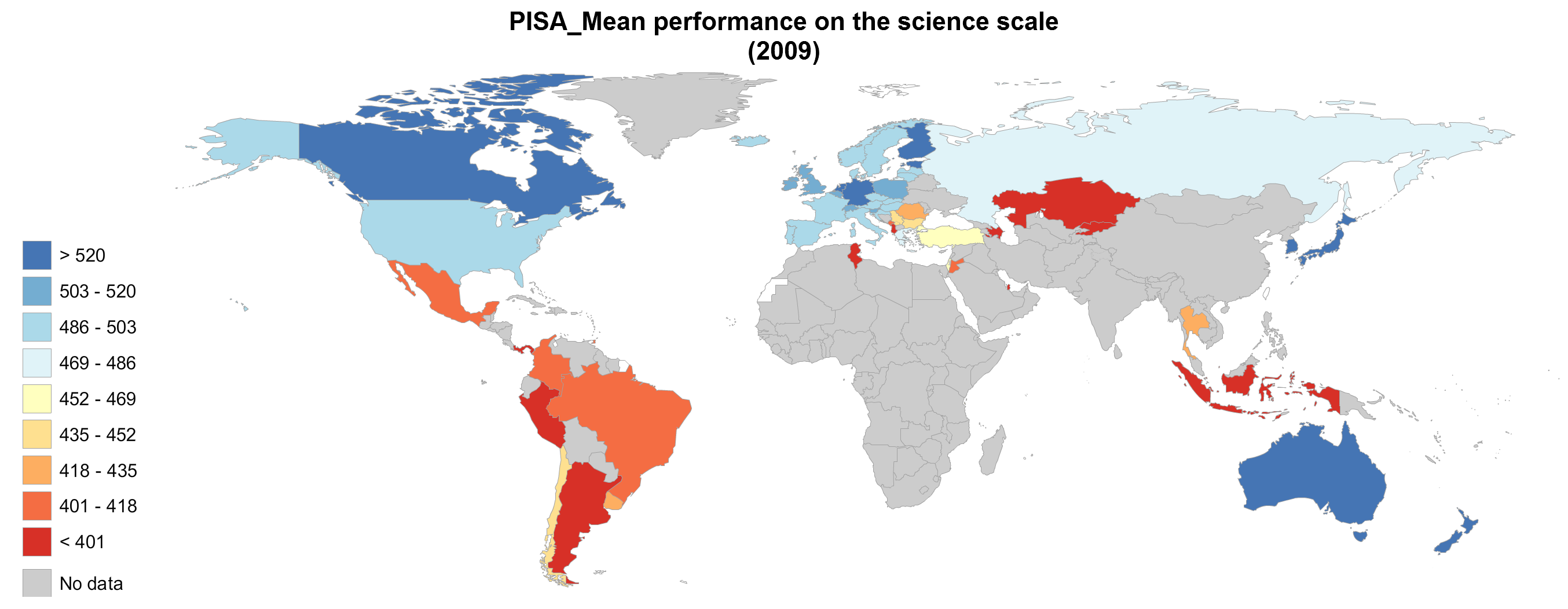 "Programme for International Student Assessment" 2009 average Reading scores